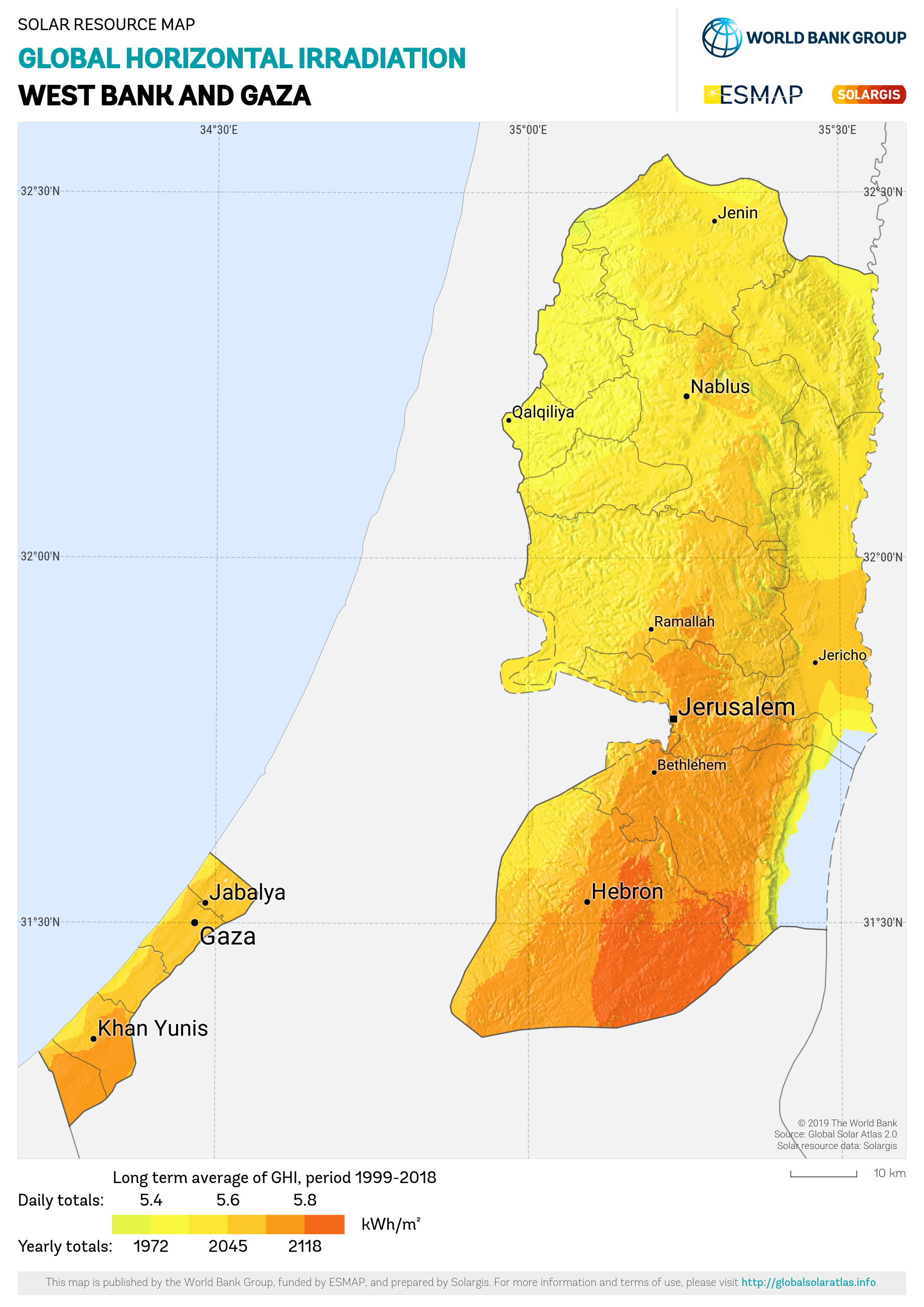 Global Horizontal Irradiation of Palestine